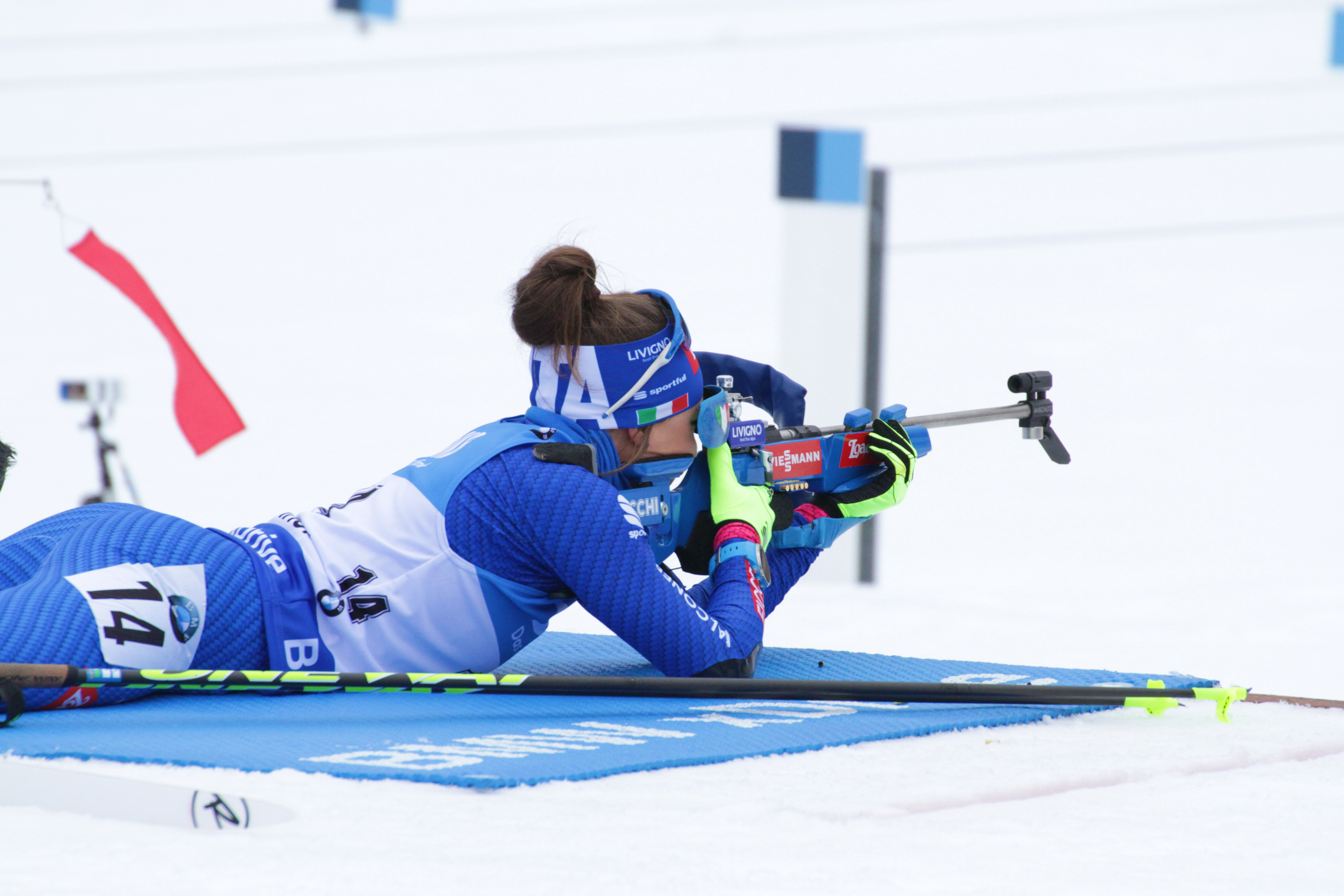 2018 Oberhof Biathlon World Cup - Sprint Women